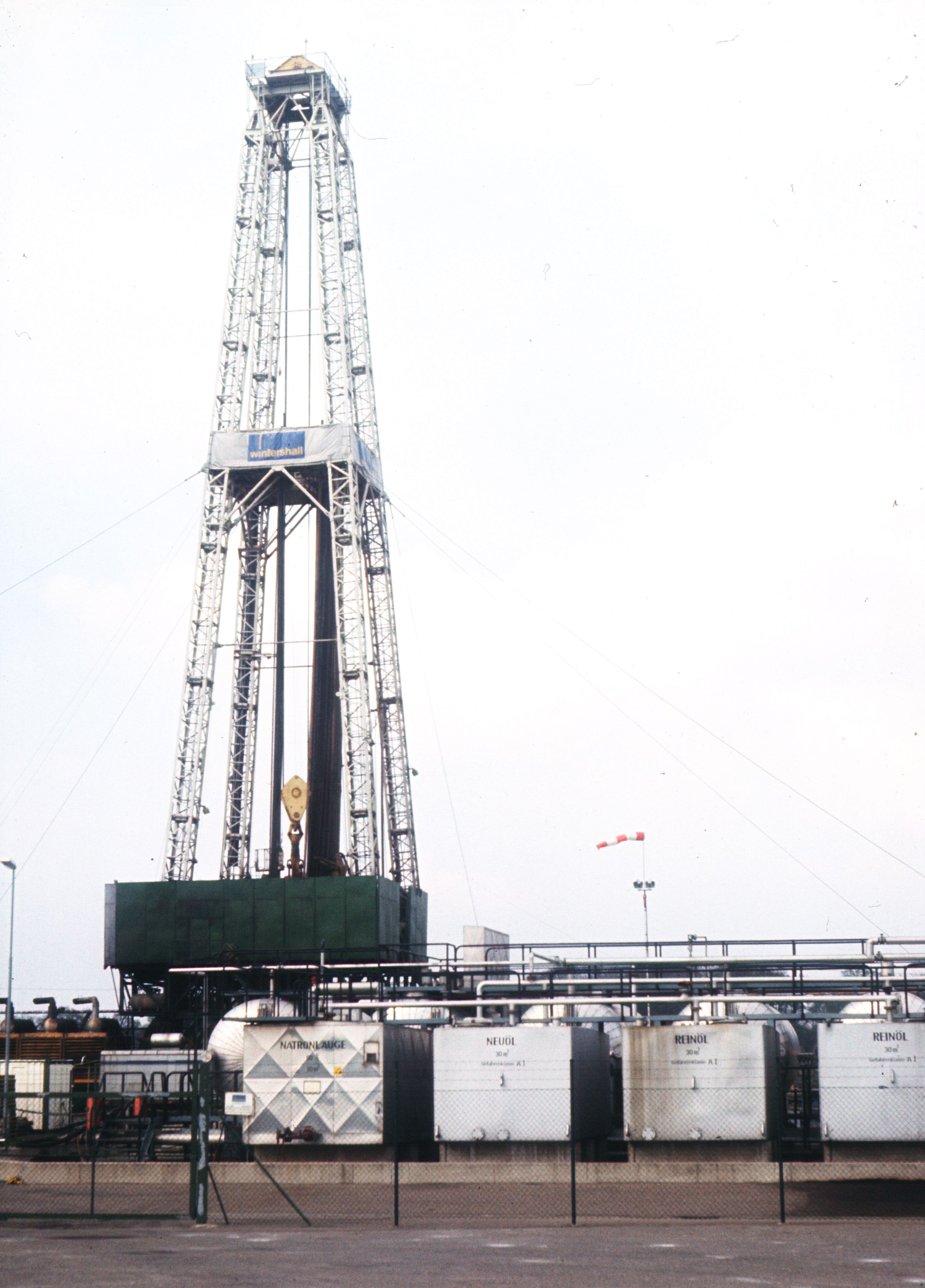 Drilling rig with drill pipes, next to containers for the drilling fluid, 1985